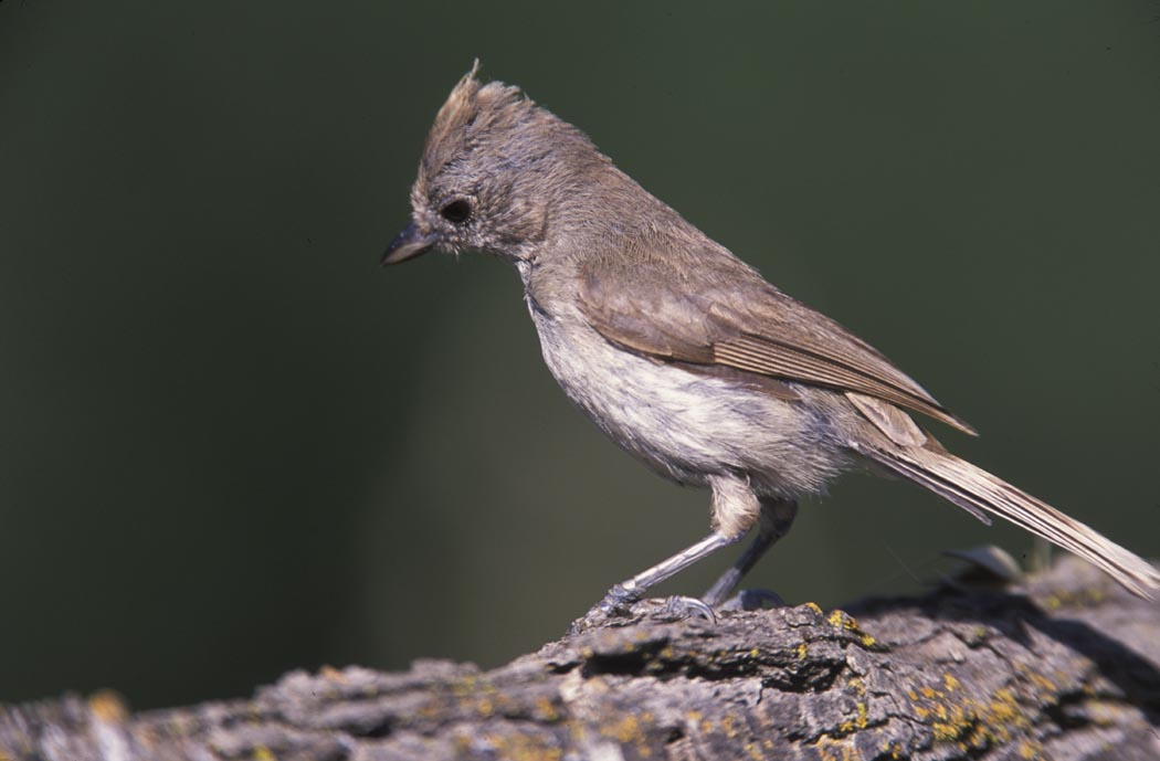 Oak Titmouse (Baeolophus inornatus)